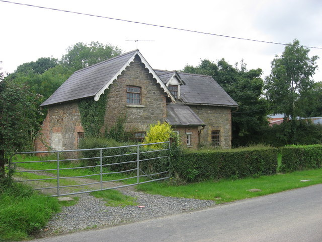 Estate House, Drumcar, Co. Louth Nineteenth-century estate house probably attached to nearby Drumcar House.